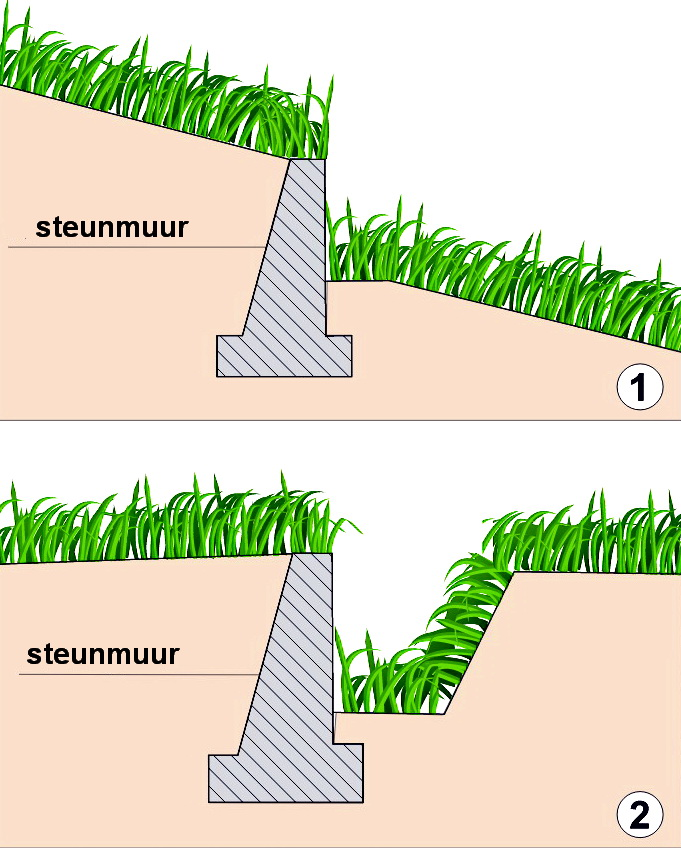 Cross-section of a ha-ha landscape feature: 1. On a slope; 2. Flat terrain.